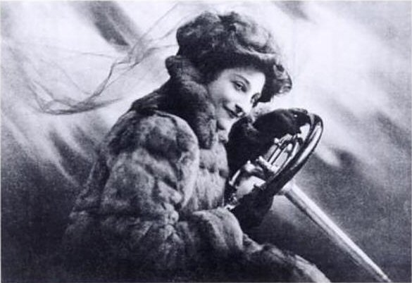 Dorothy Levitt Frontispiece to The Woman and the Car. Replicated on Google books and Women and the Machine By Julie Wosk.